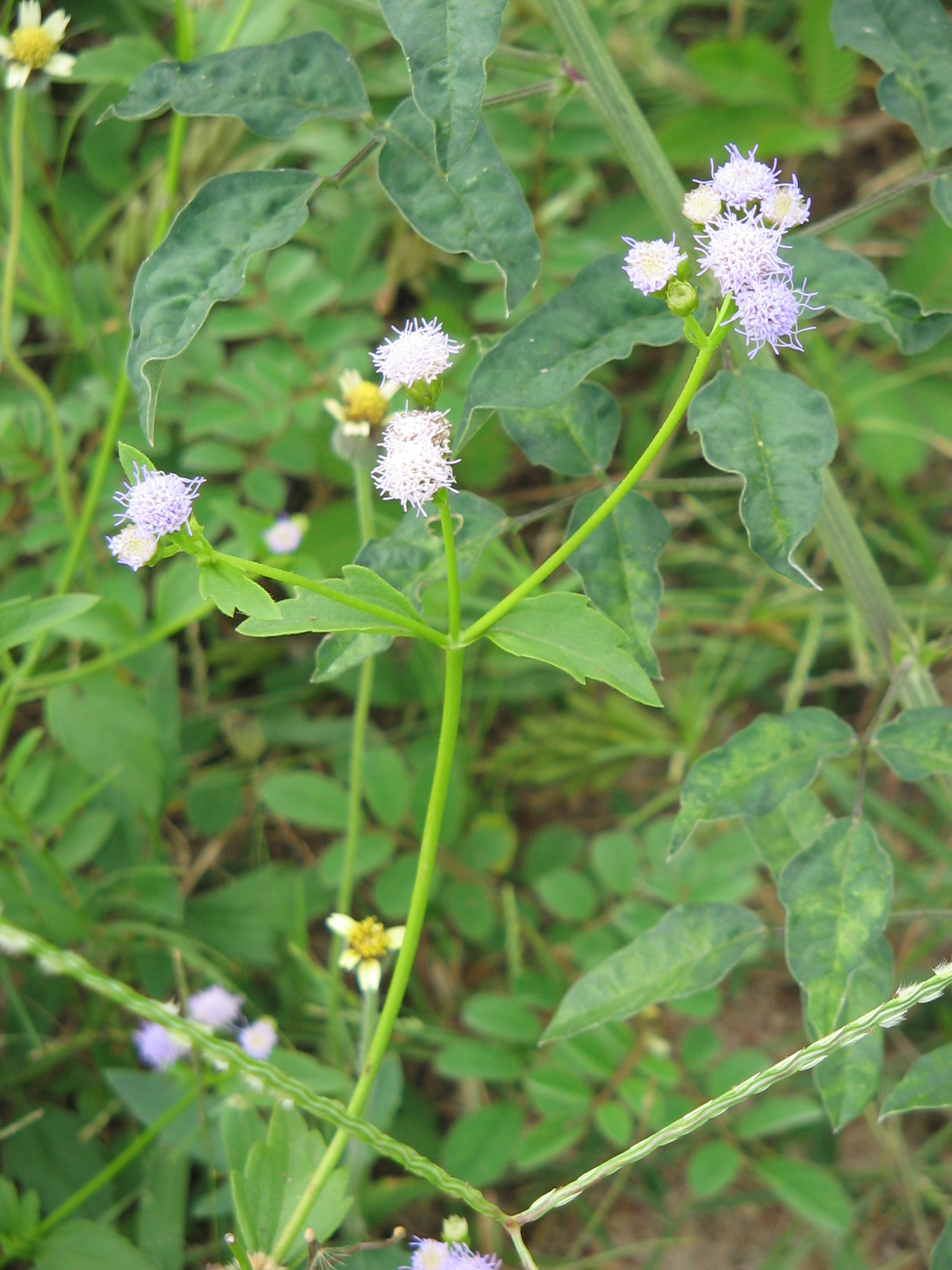 Praxelis diffusa (Syn. Eupatorium pauciflorum) in Northwestern Thailand